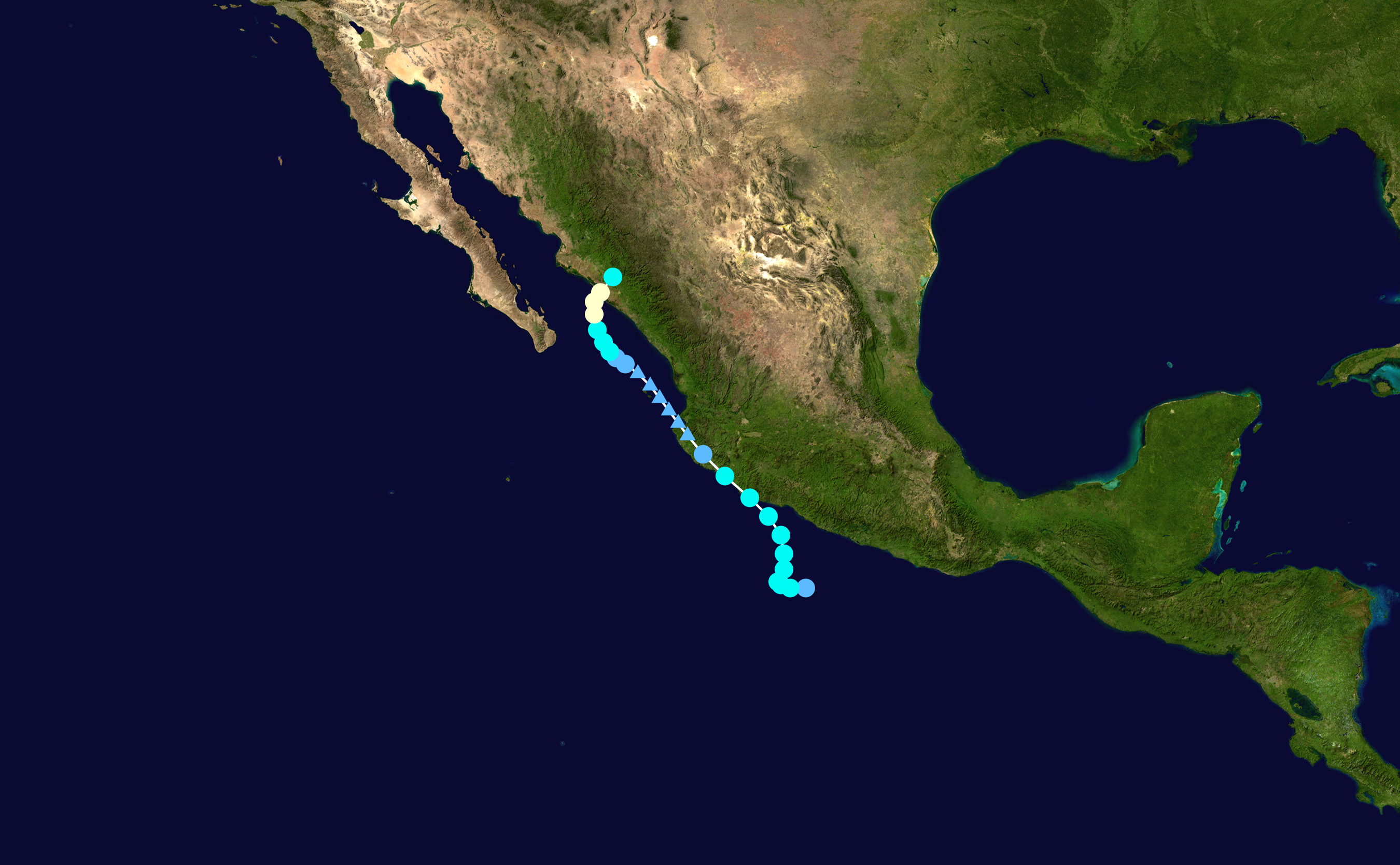 Track map of Hurricane Manuel of the 2013 Pacific hurricane season. The points show the location of the storm at 6-hour intervals. The colour represents the storm's maximum sustained wind speeds as classified in the Saffir–Simpson scale (see below), and the shape of the data points represent the nature of the storm, according to the legend below. Saffir–Simpson scale Tropical depression≤38 mph≤62 km/h Category 3111–129 mph178–208 km/h Tropical storm39–73 mph63–118 km/h Category 4130–156 mph209–251 km/h Category 174–95 mph119–153 km/h Category 5≥157 mph≥252 km/h Category 296–110 mph154–177 km/h Unknown Storm type Tropical cyclone Subtropical cyclone Extratropical cyclone / Remnant low / Tropical disturbance / Monsoon depression